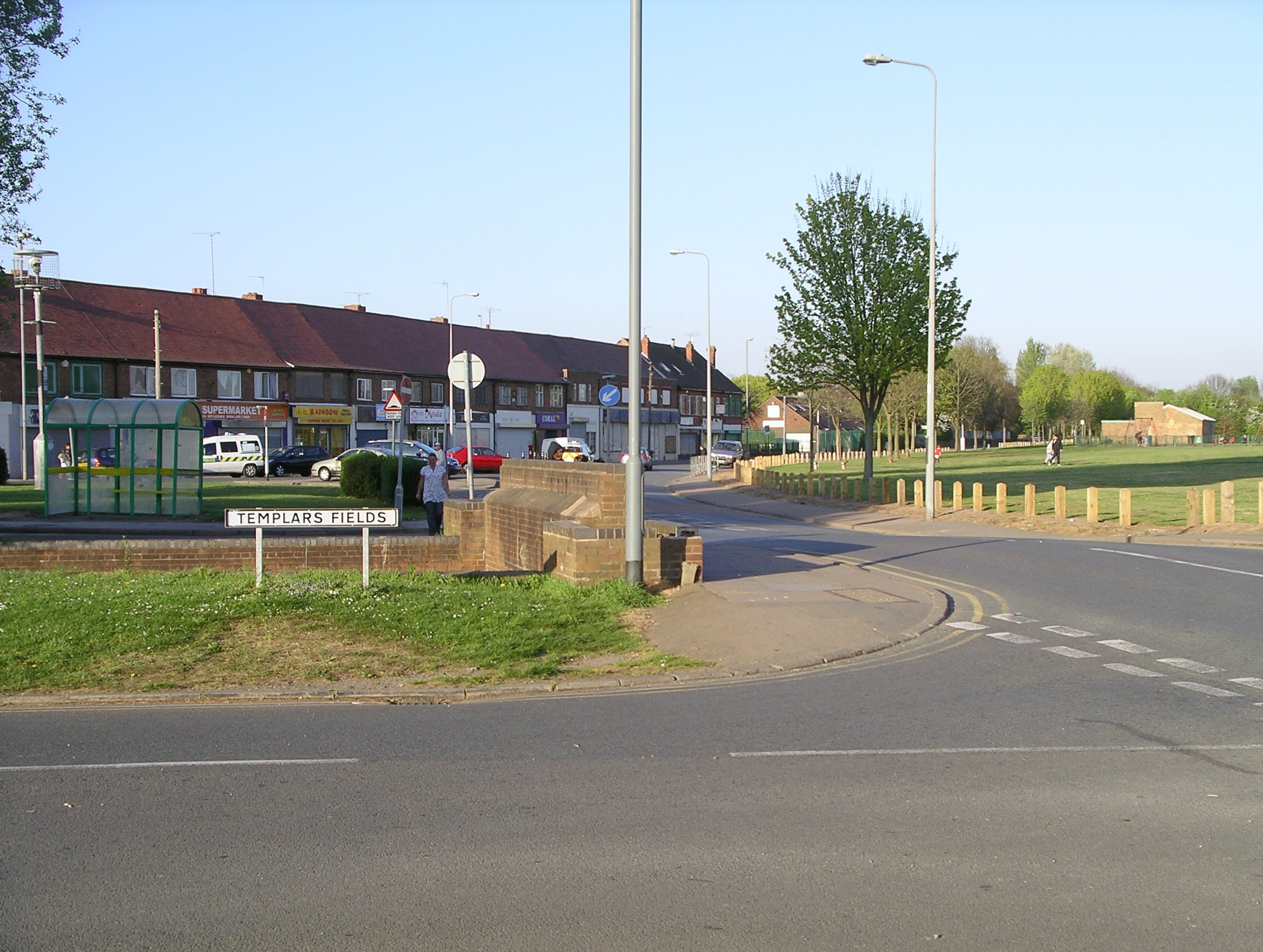 Photo taken by me of a row of shops in Canley, Coventry, England.